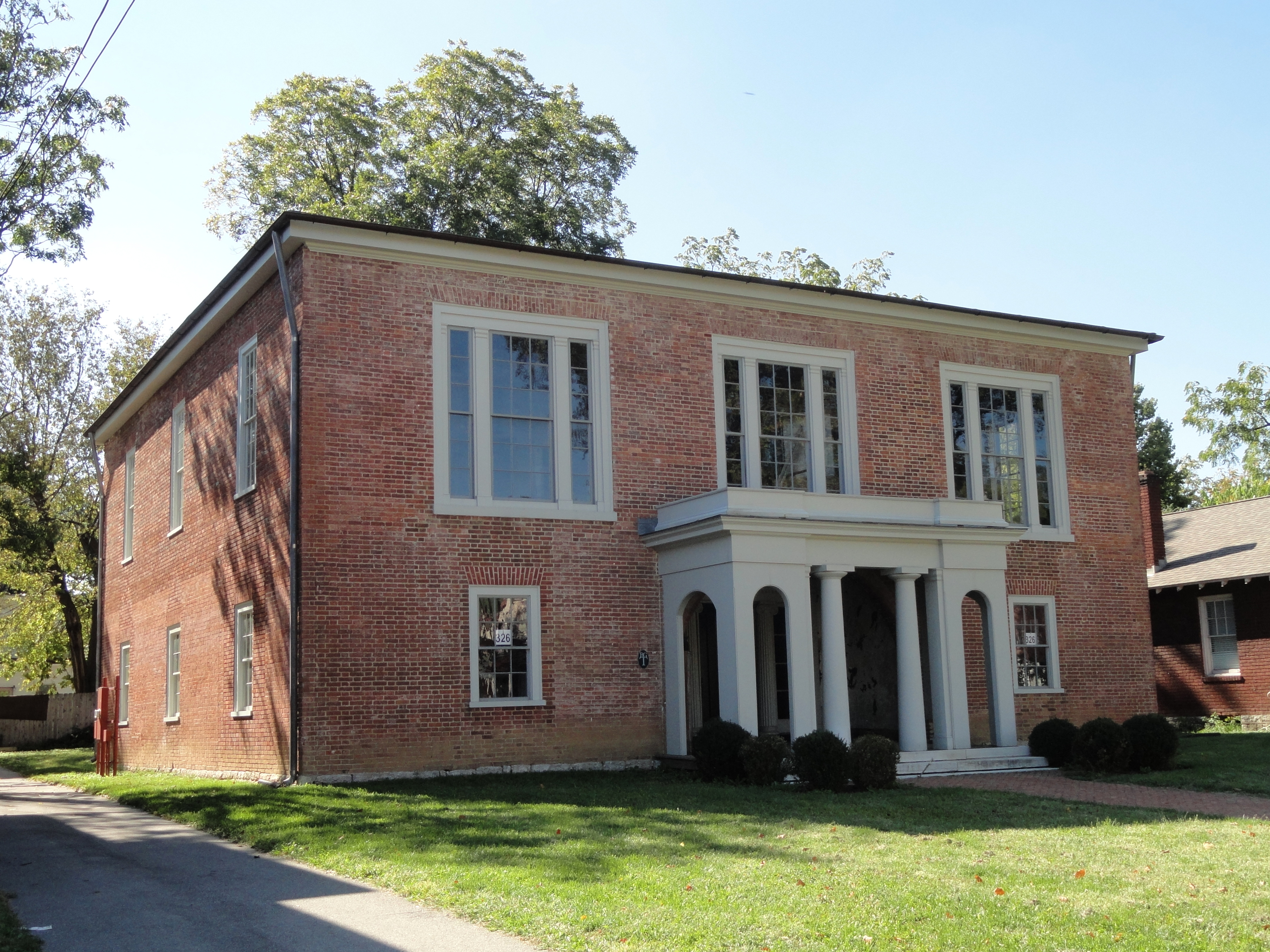 Pope Villa, 326 Grosvenor Avenue, Lexington, Kentucky, USA. Designed in 1810-1881 by architect Benjamin Henry Latrobe for Senator John and Eliza Pope. Restored after a 1987 fire.